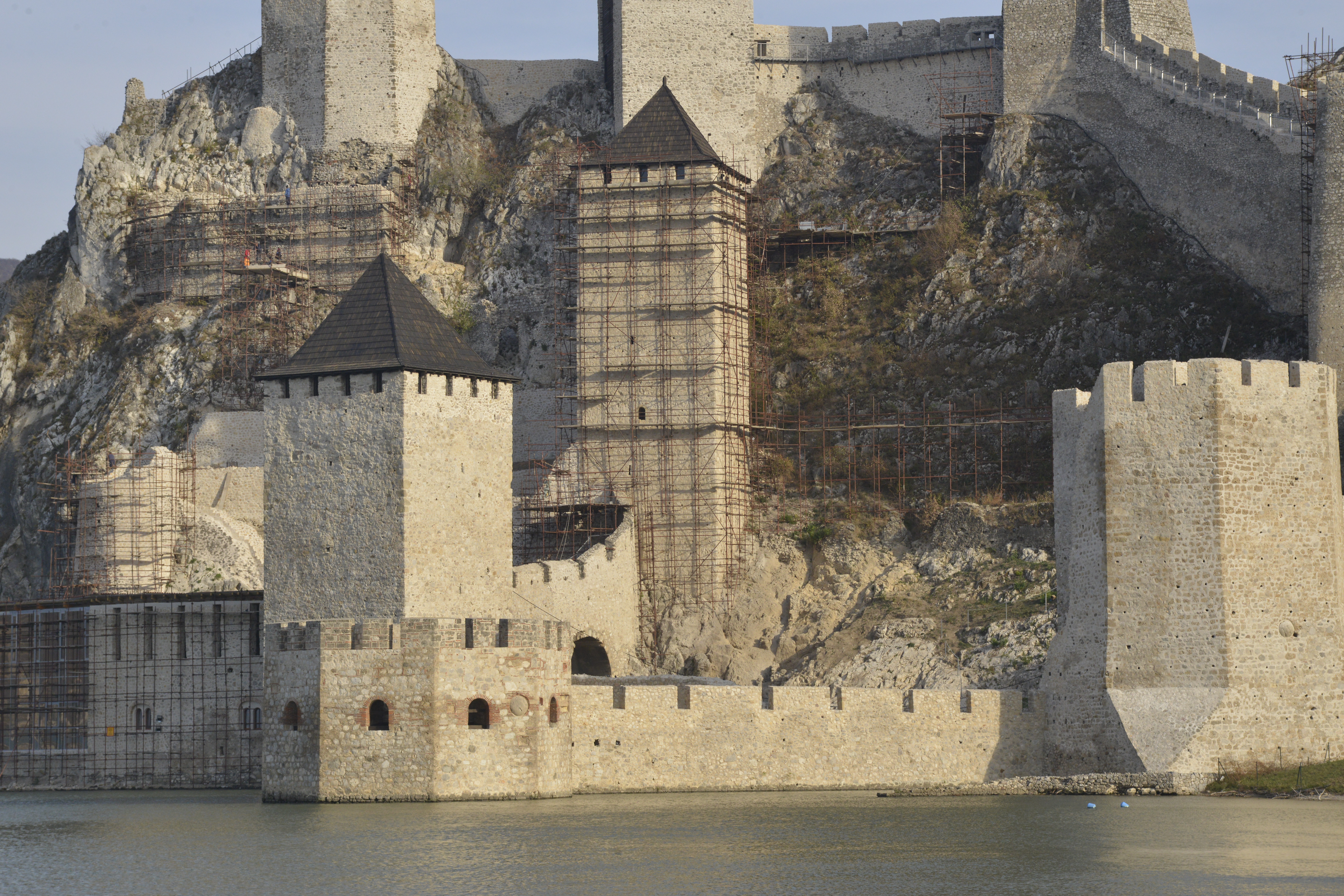 Fortress Golubac